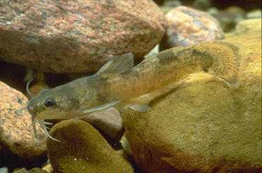 Noturus miurus (madtom) picture